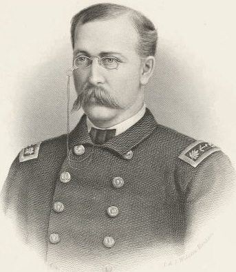 Portrait of George DeLong, USN (1844–1881), naval officer and Arctic explorer